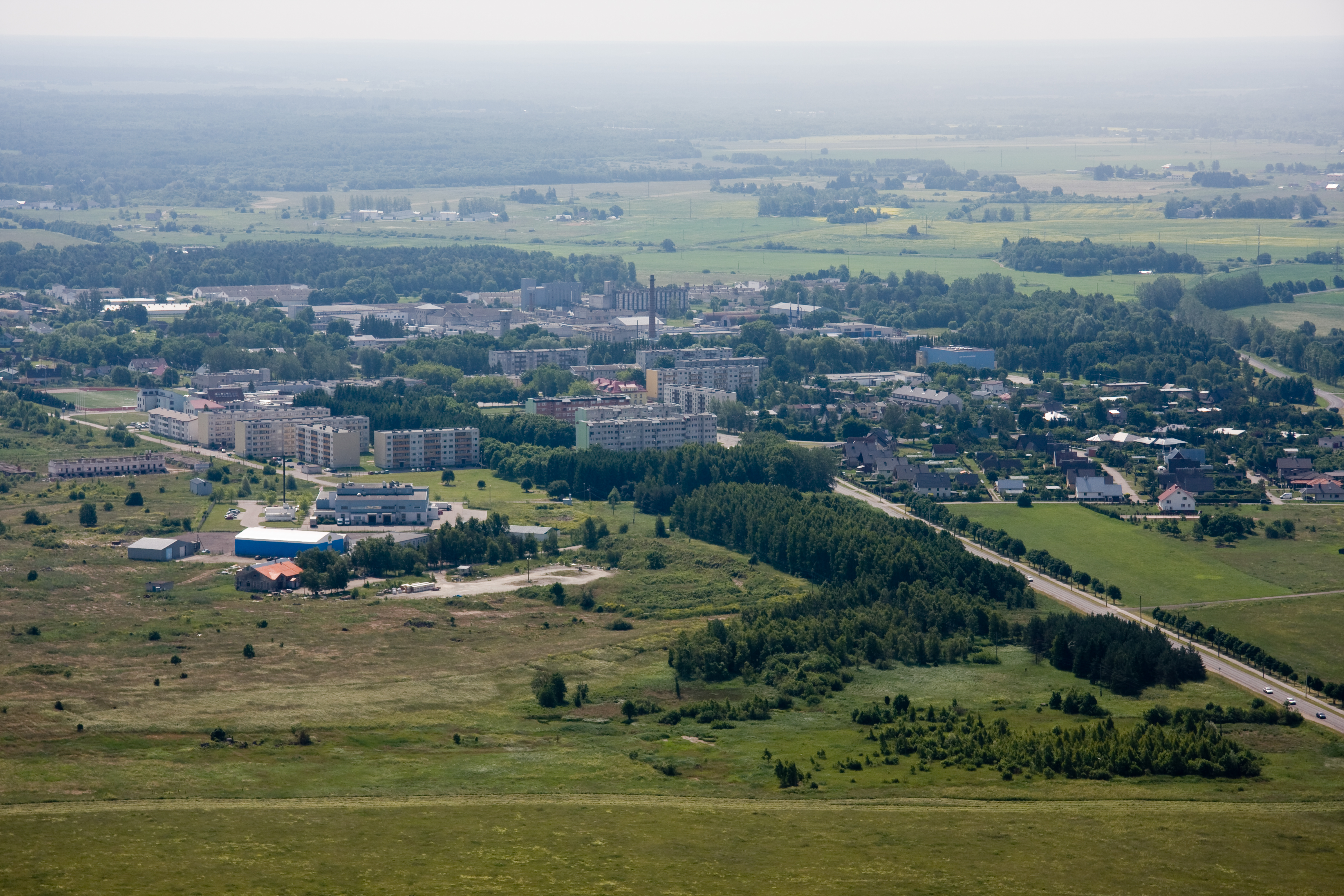 Loo small borough seen from the Iru power plant.